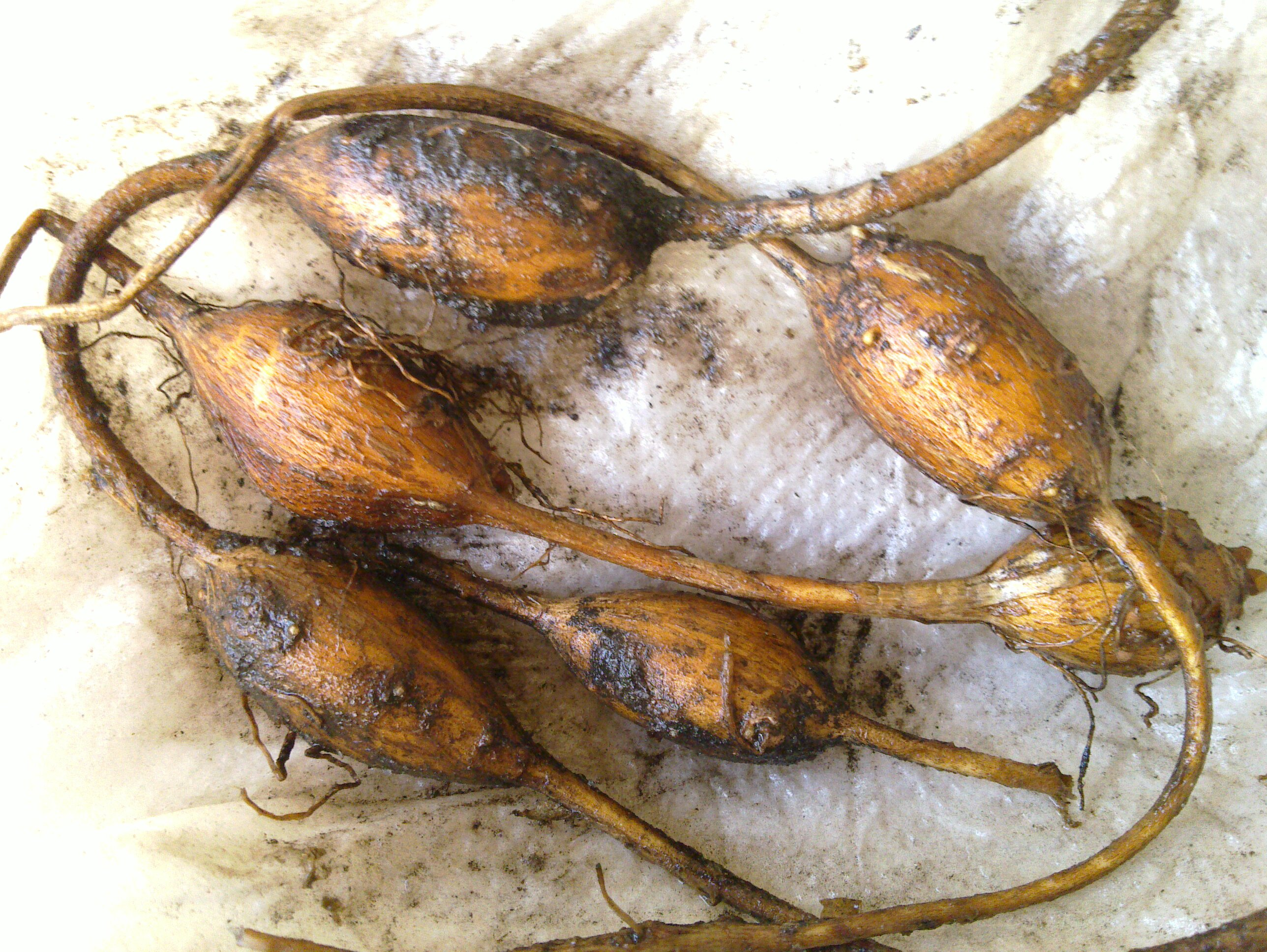 Wurzelknollen von Apios americana